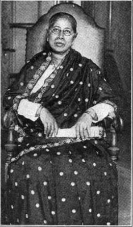 "The Woman Citizen" Dr. Gurubal Karmarkar, of Bombay, India